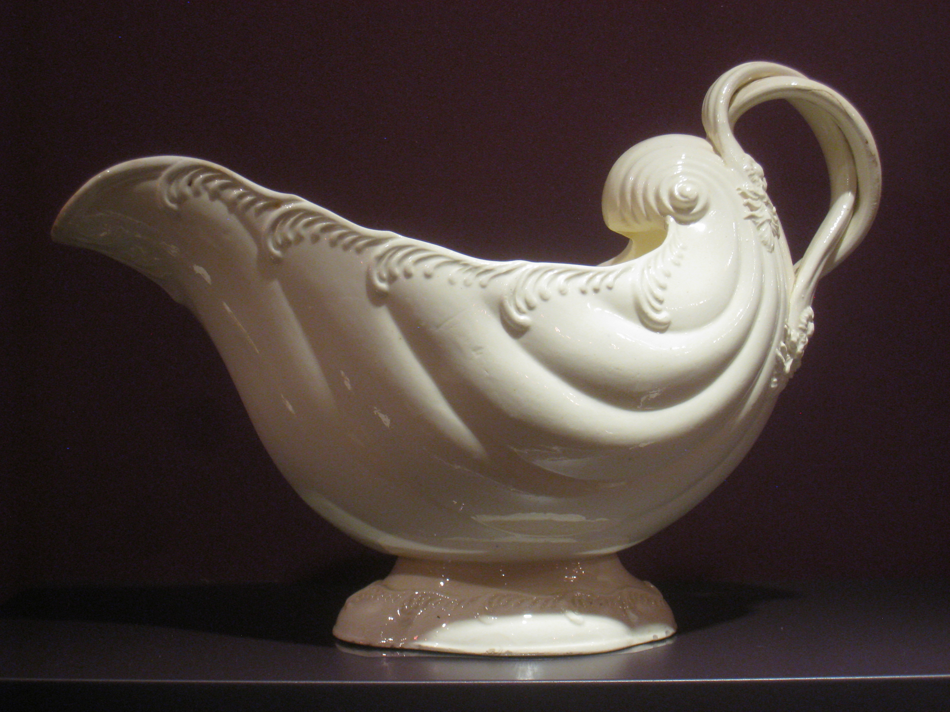 Sauce boat, earthenware; possibly Leeds Pottery in Yorkshire, 1770-1780. Pottery exhibited in the DAR Museum, National Society Daughters of the American Revolution, 1776 D Street NW, Washington, DC, USA.